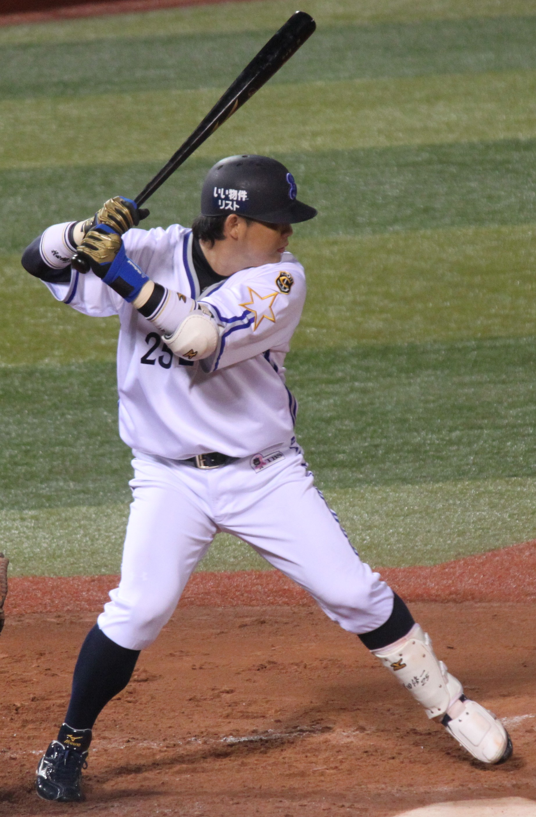 Shuichi Murata, infielder of the Yokohama BayStars, at Yokohama Stadium.